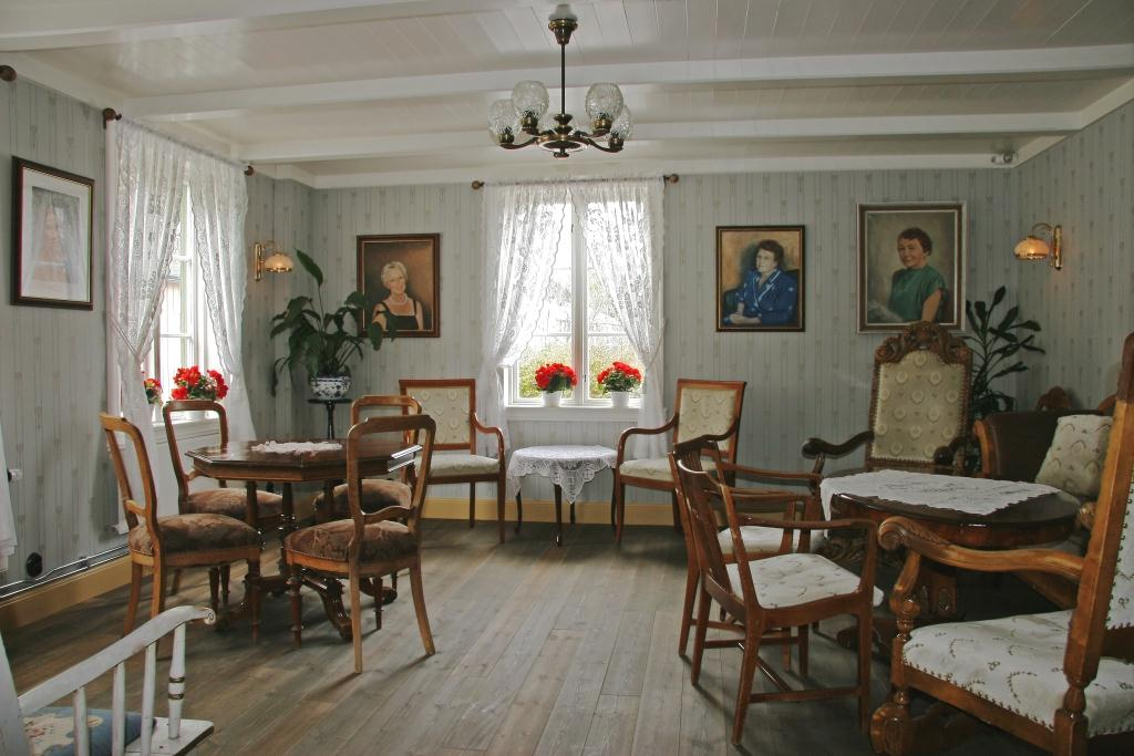 Elistuen in Fru Haugans Hotel in Mosjøen, Norway. On the walls painted portraits of four women who have run the hotel.